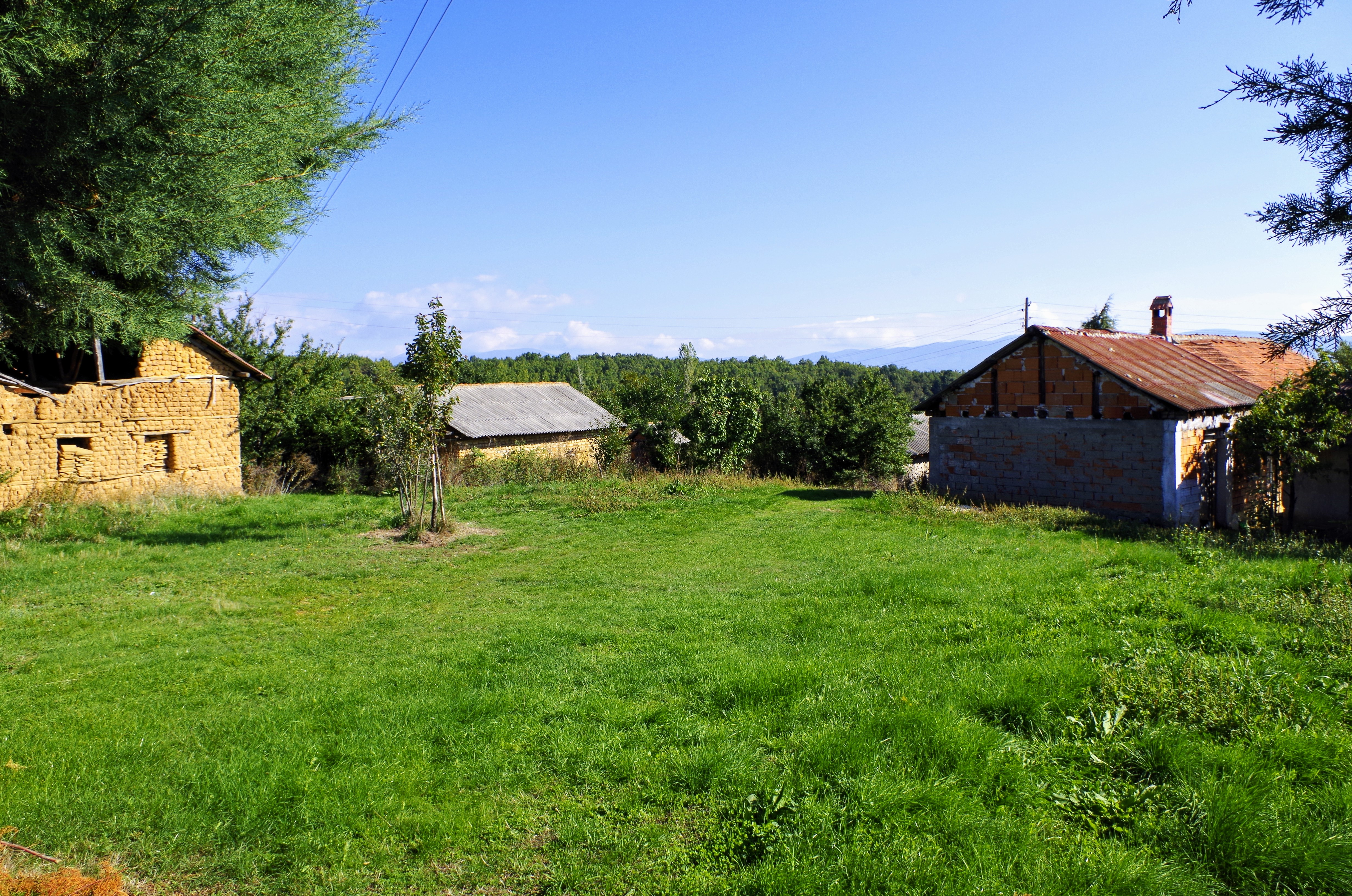 View of the village Preljubje